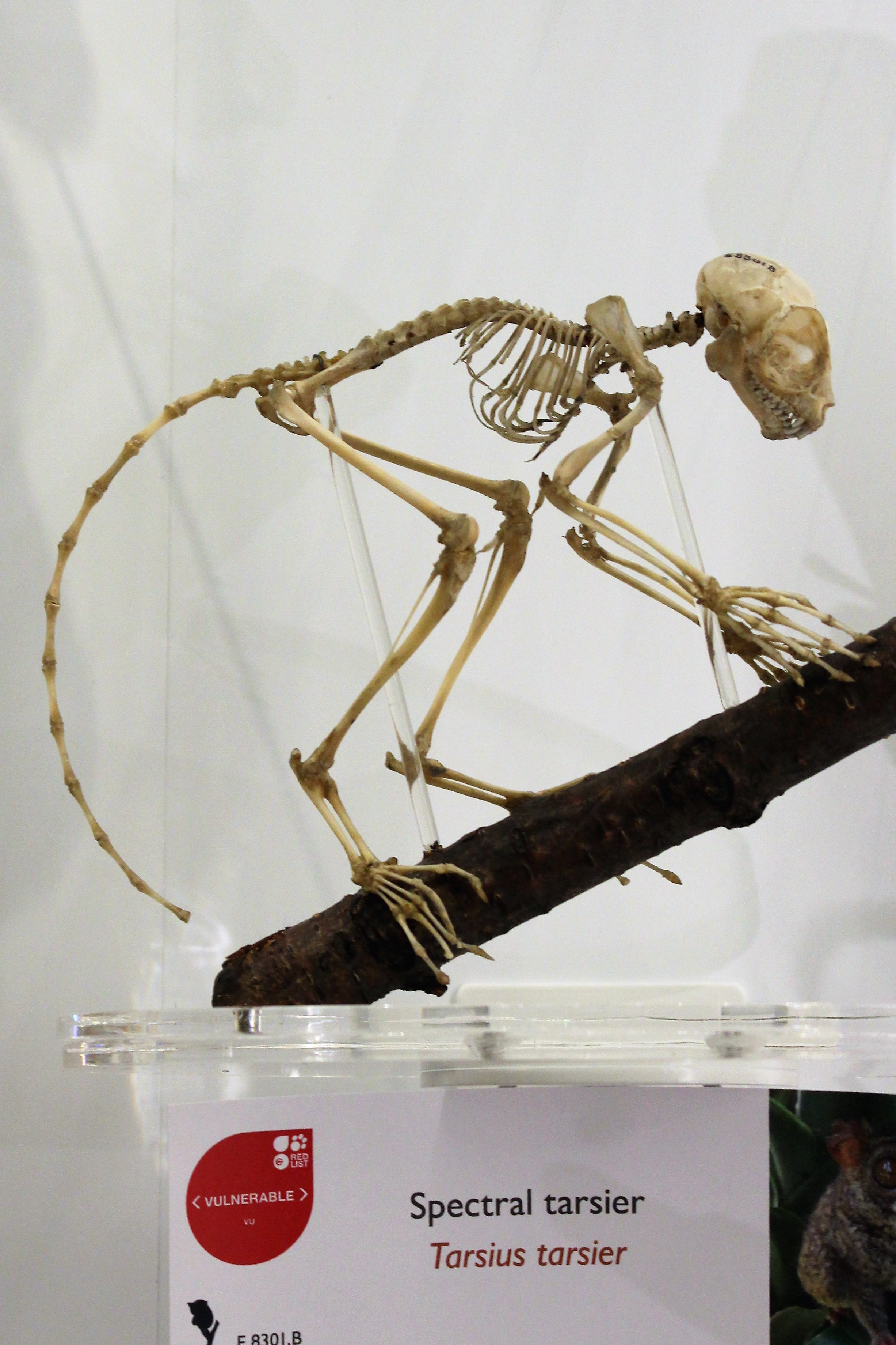 Spectral tarsier (Tarsius tarsier) skeleton at the Cambridge University Museum of Zoology, England.